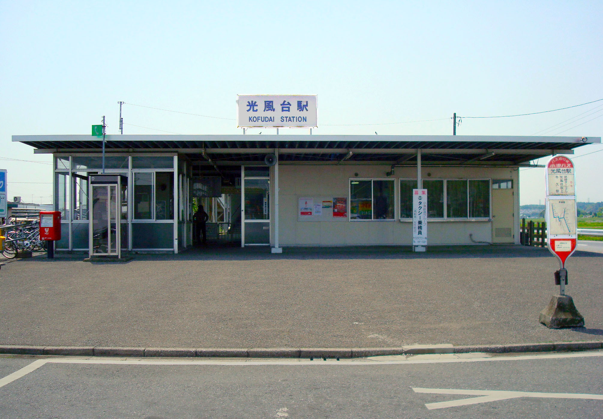 Kōfūdai Station on the Kominato Line, Ichihara, Chiba, Japan